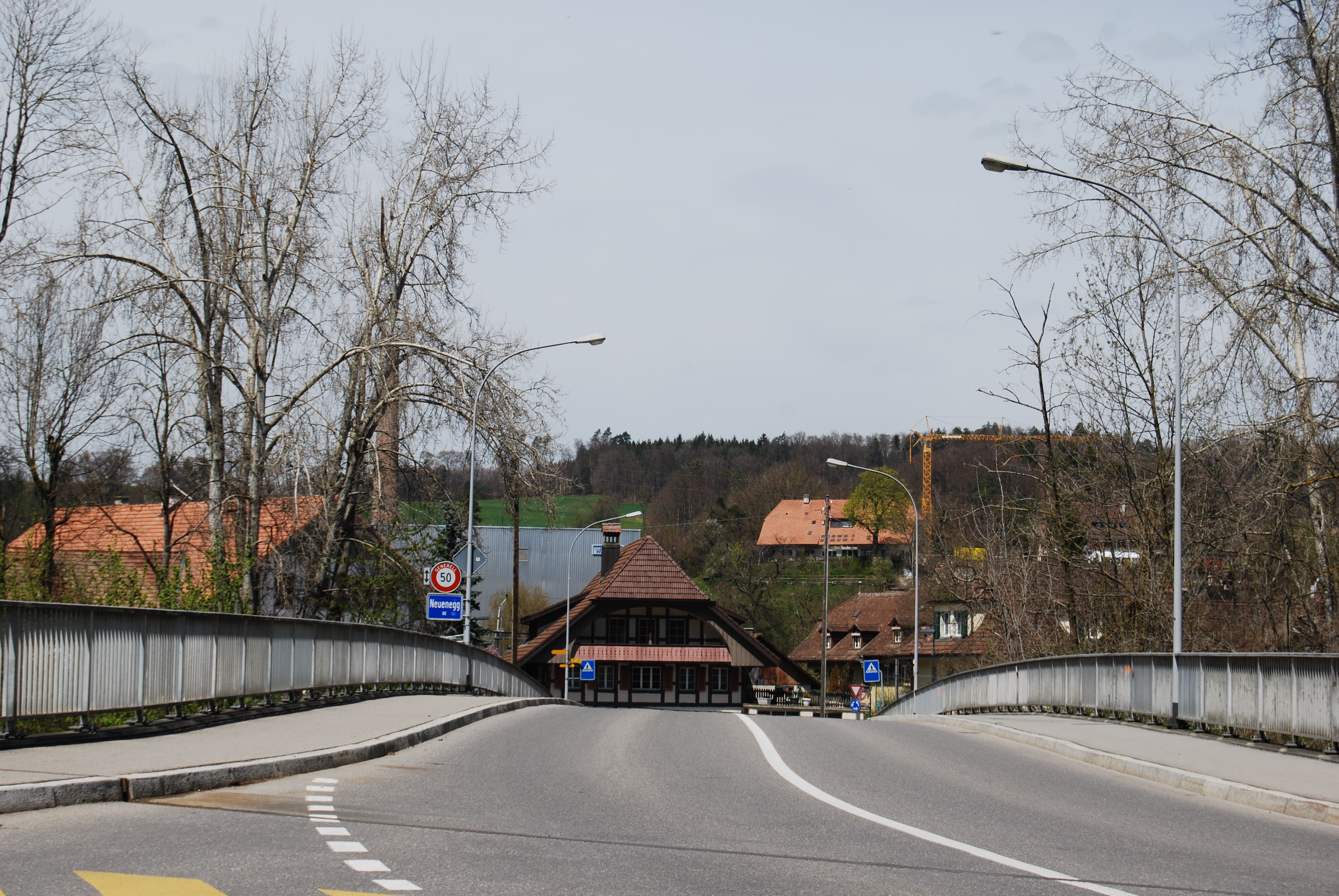 Neuenegg, canton of Bern, SwitzerlandEsperanto: Neuenegg, Kantono Berno, Svislando